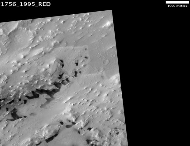 Pasteur Crater Floor, as seen by hirise. Location is 19.2 degrees north latitude and 24.4 degrees east longitude. Image was taken by the Mars Reconnaissance Orbiter's HiRISE. The HiRISE camera was built by Ball Aerospace and Technology Corporation and is operated by the University of Arizona. Image courtesy NASA/JPL/University of Arizona.